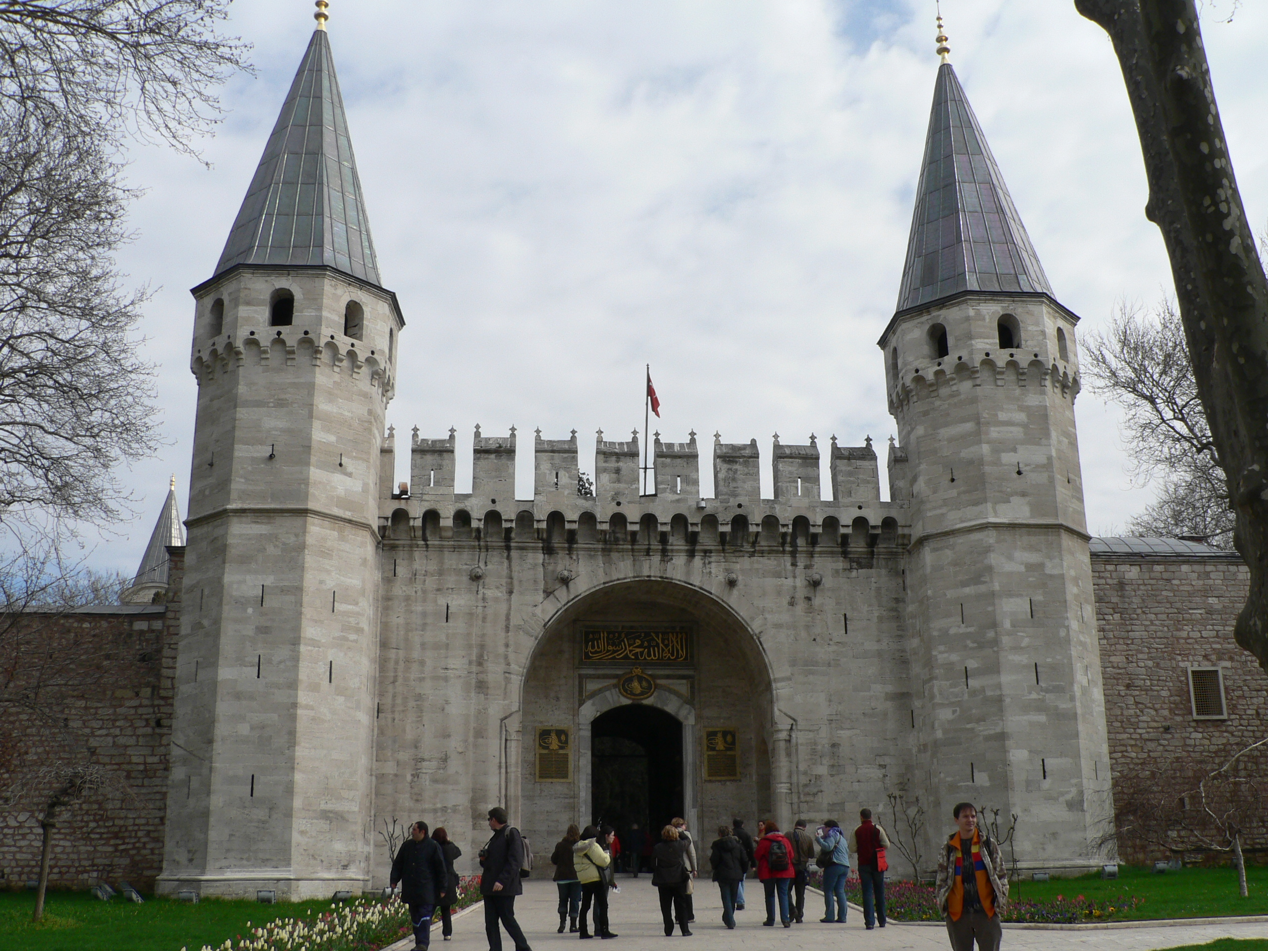 Topkapi. The Gate of Salutation (Bâb-üs Selâm).